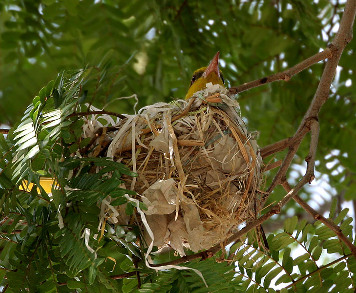 Indian Golden Oriole Oriolus kundoo in Hyderabad, India.